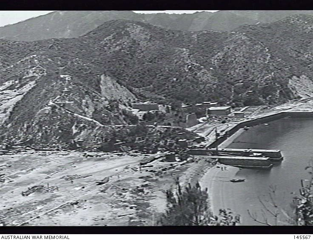 Kaigoshi, Kurahashi Shima, Japan. 1948-07-01. Looking down on the harbour area. In the left foreground a cordite stack is about to be ignited.